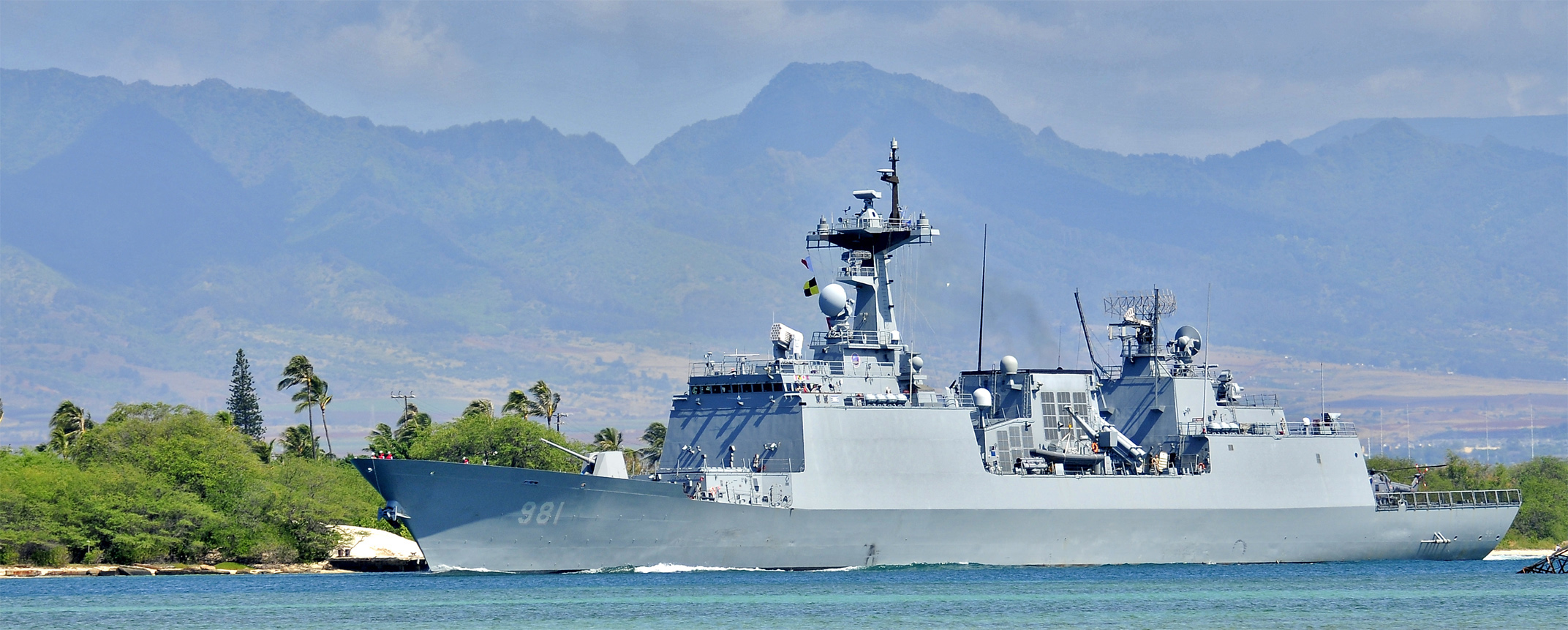 PEARL HARBOR (July 11, 2012) The Republic of Korea Navy Chungmugong Yi Sun-sin-class destroyer Choe Young (DDG-981) departs Joint Base Pearl Harbor-Hickam during Rim of the Pacific (RIMPAC) 2012. Twenty-two nations, more than 40 ships and submarines, more than 200 aircraft and 25,000 personnel are participating in RIMPAC, which runs from June 29 to Aug. 3, in and around the Hawaiian Islands. The world's largest international maritime exercise, RIMPAC provides a unique training opportunity that helps participants foster and sustain the cooperative relationships that are critical to ensuring the safety of sea lanes and security on the world's oceans. RIMPAC 2012 is the 23rd exercise in the series that began in 1971. (U.S. Navy photo by Mass Communication Specialist 3rd Class Sean Furey/Released) 120711-N-WX059-151 Join the conversation navylive.dodlive.mil